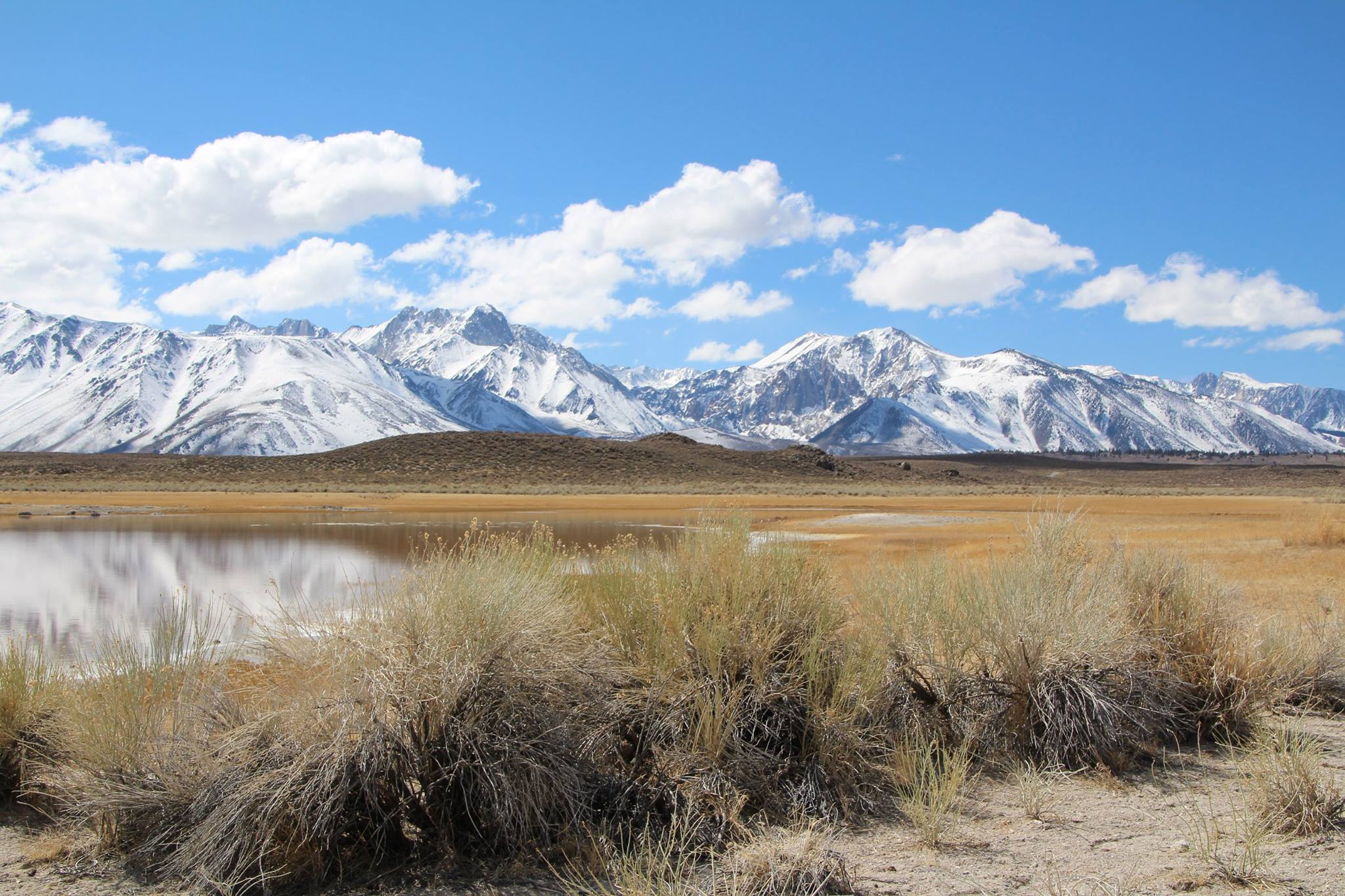 Long Valley in Bishop Field Office. Photo by Joshua Hammari, BLM.